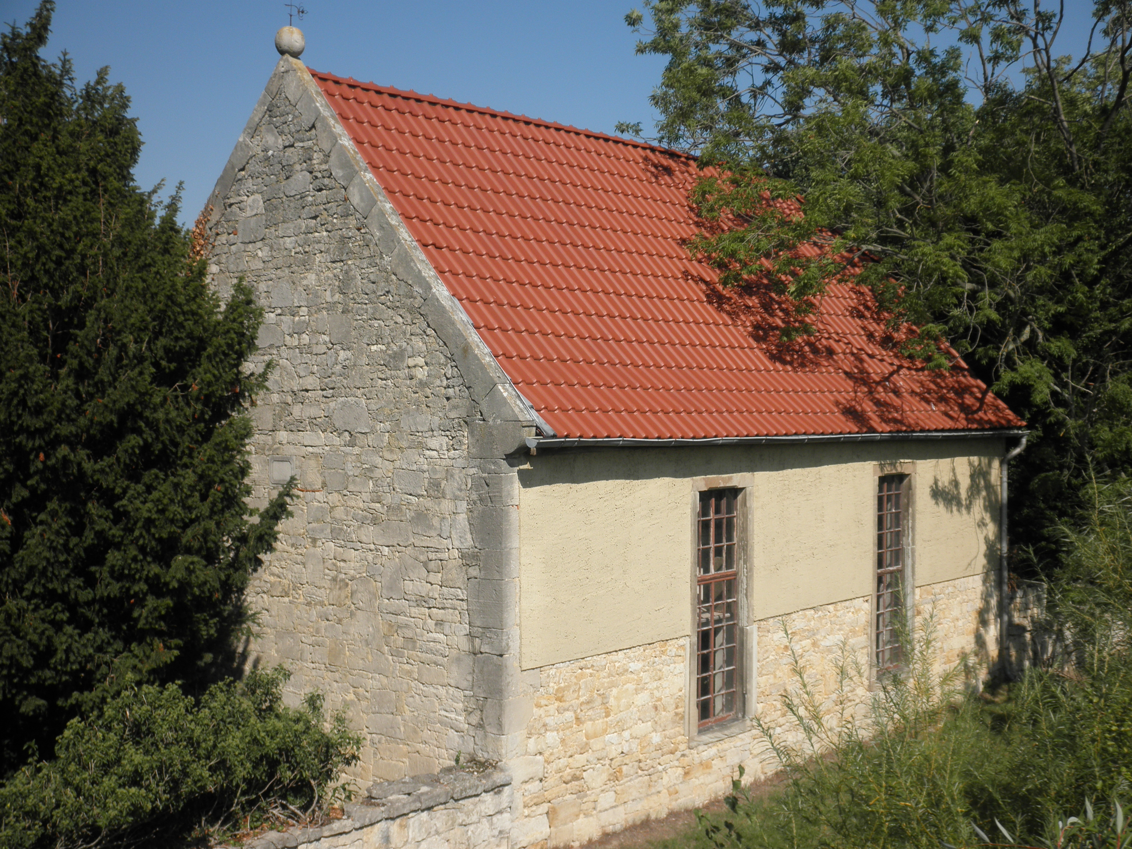 Church in Graitschen auf der Höhe in Thuringia